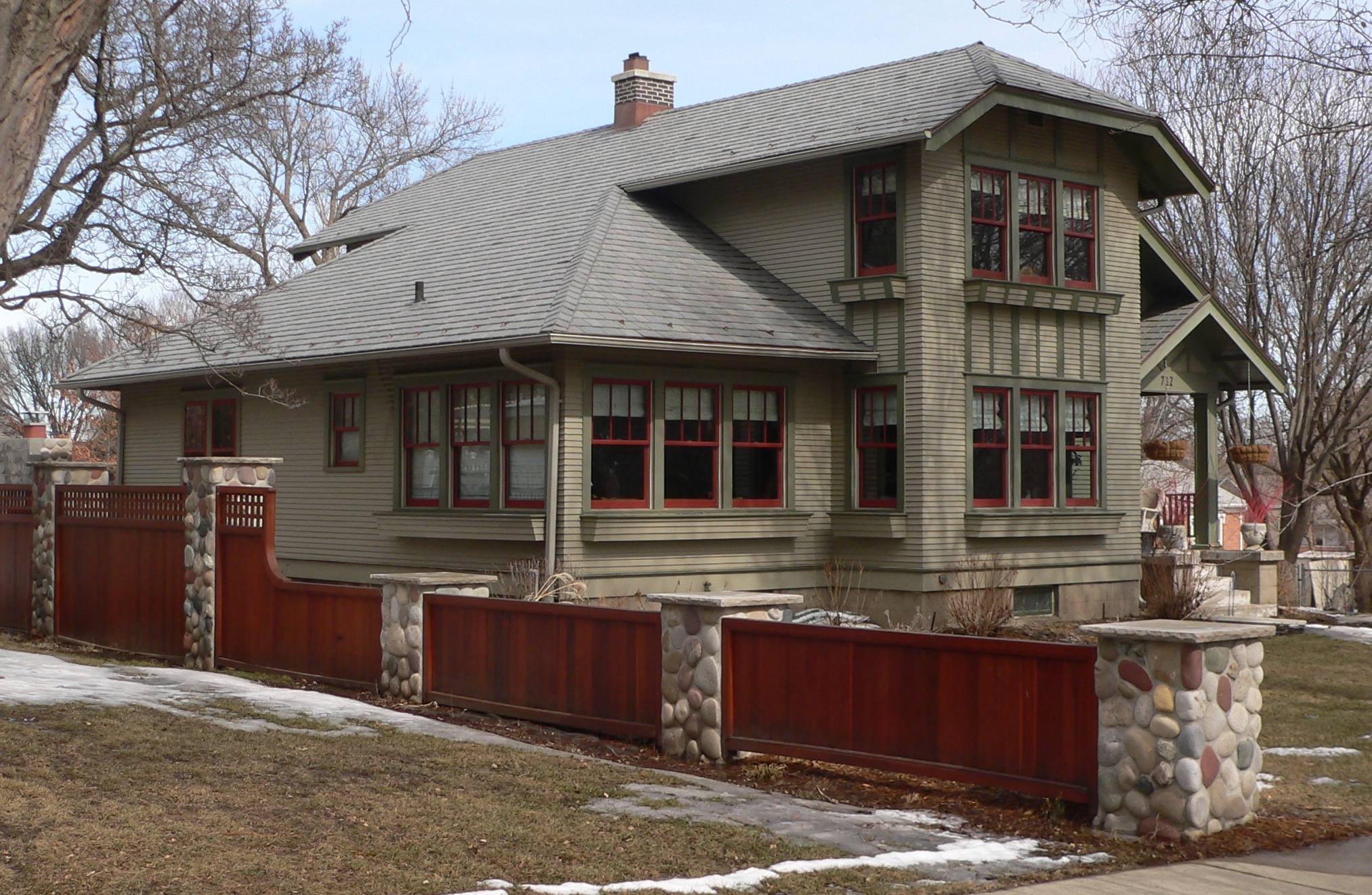 Harold A. (H.A.) Doyle House, located at 712 W. 3rd Street in Yankton, South Dakota; seen from the southwest. The 1924 American Craftsman house was designed by architect William L. Steele. It is listed in the National Register of Historic Places.